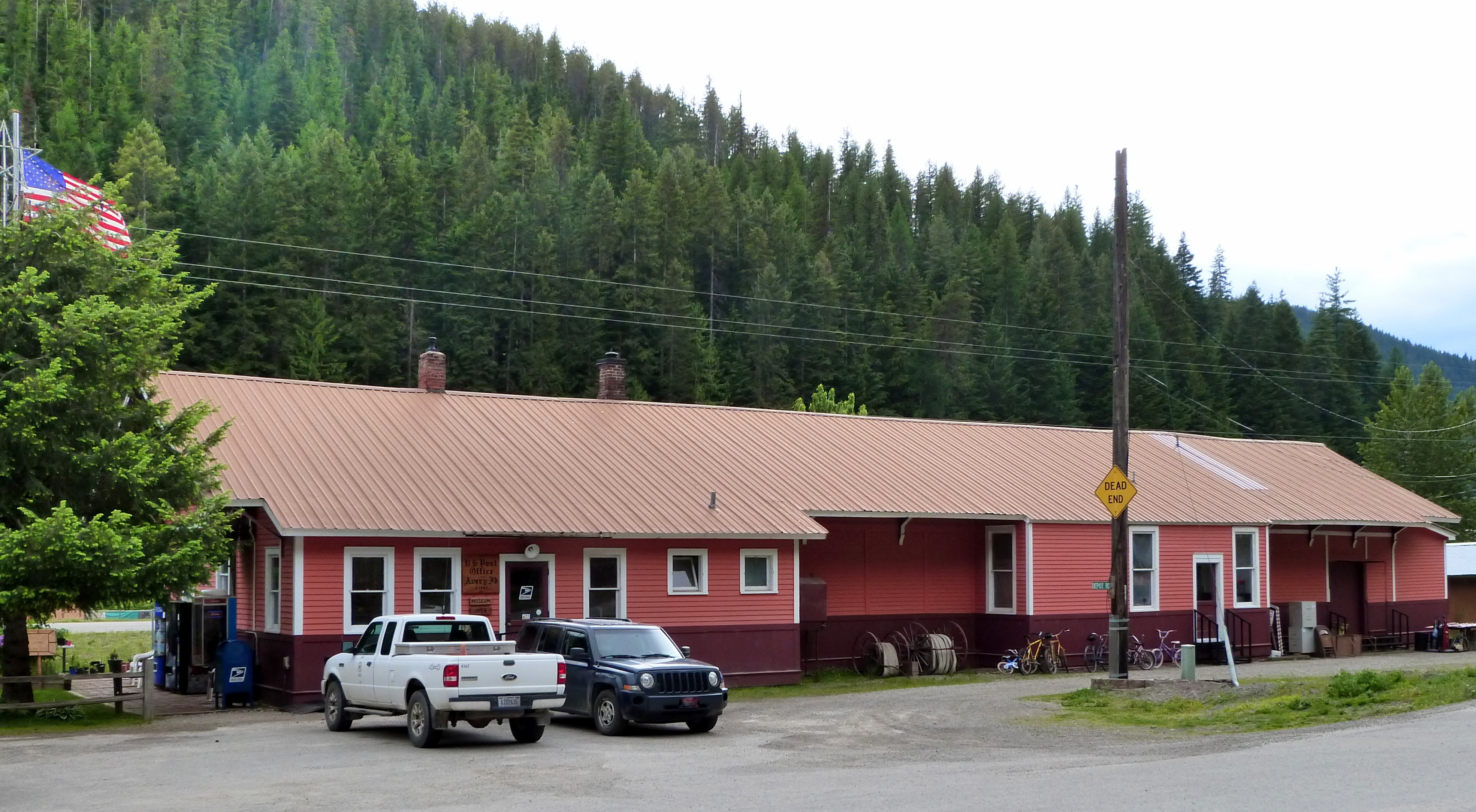 The historic Avery Depot (built 1909), located on St. Joe River Road in Avery, Idaho, United States, is listed on the US National Register of Historic Places. It served as a refuge and departure point for residents escaping the Great Fire of 1910 on the Chicago, Milwaukee, St. Paul and Pacific Railroad. As of the photo date, the left-hand portion of the building is occupied by the Avery post office.